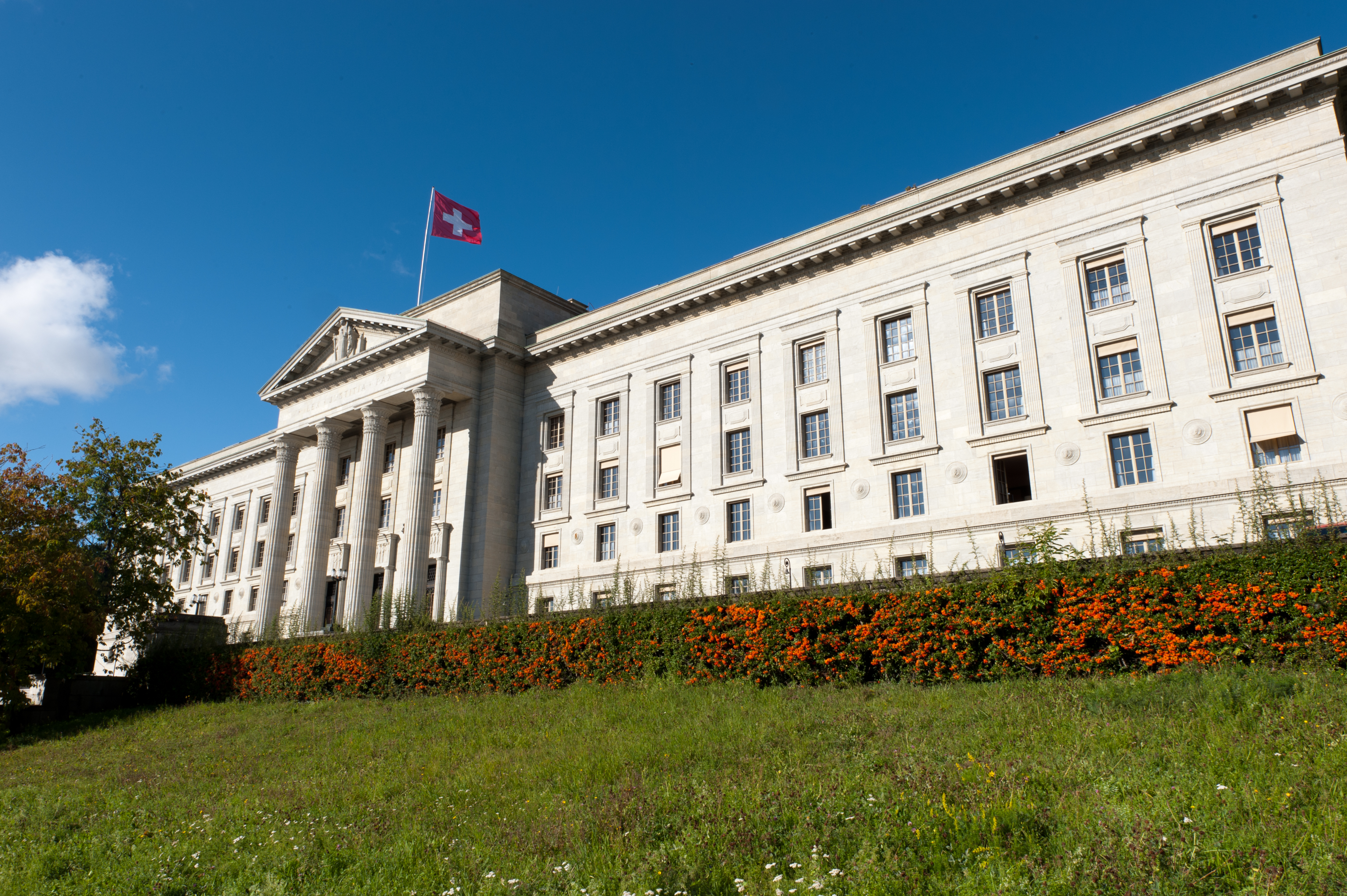 Tribunal Fédéral, Lausanne